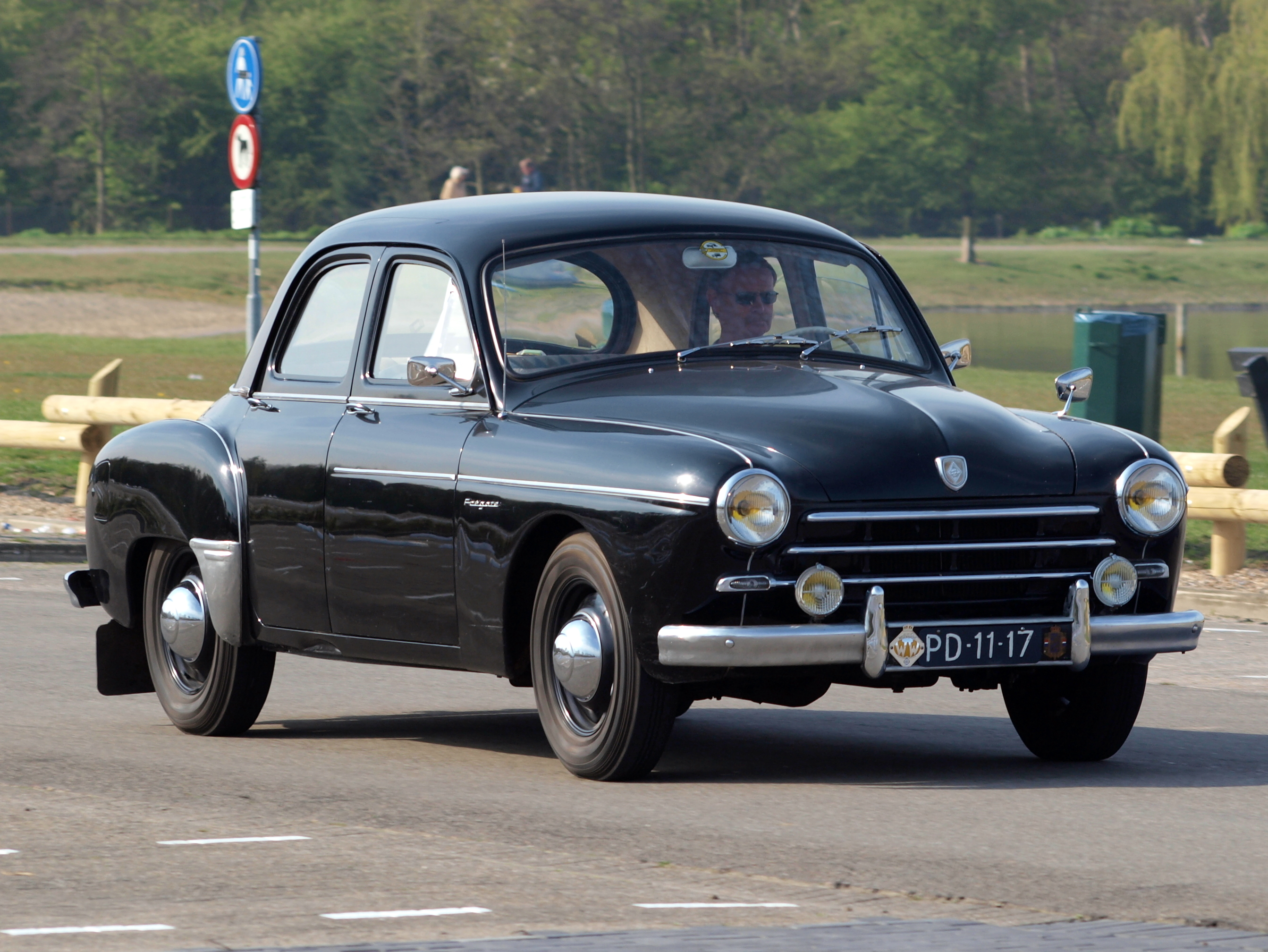 Cars and motorcycles photographed at the Voorschotense Oldtimer Vereniging Show, Valkenburgse meer, The Netherlands. OLYMPUS DIGITAL CAMERA